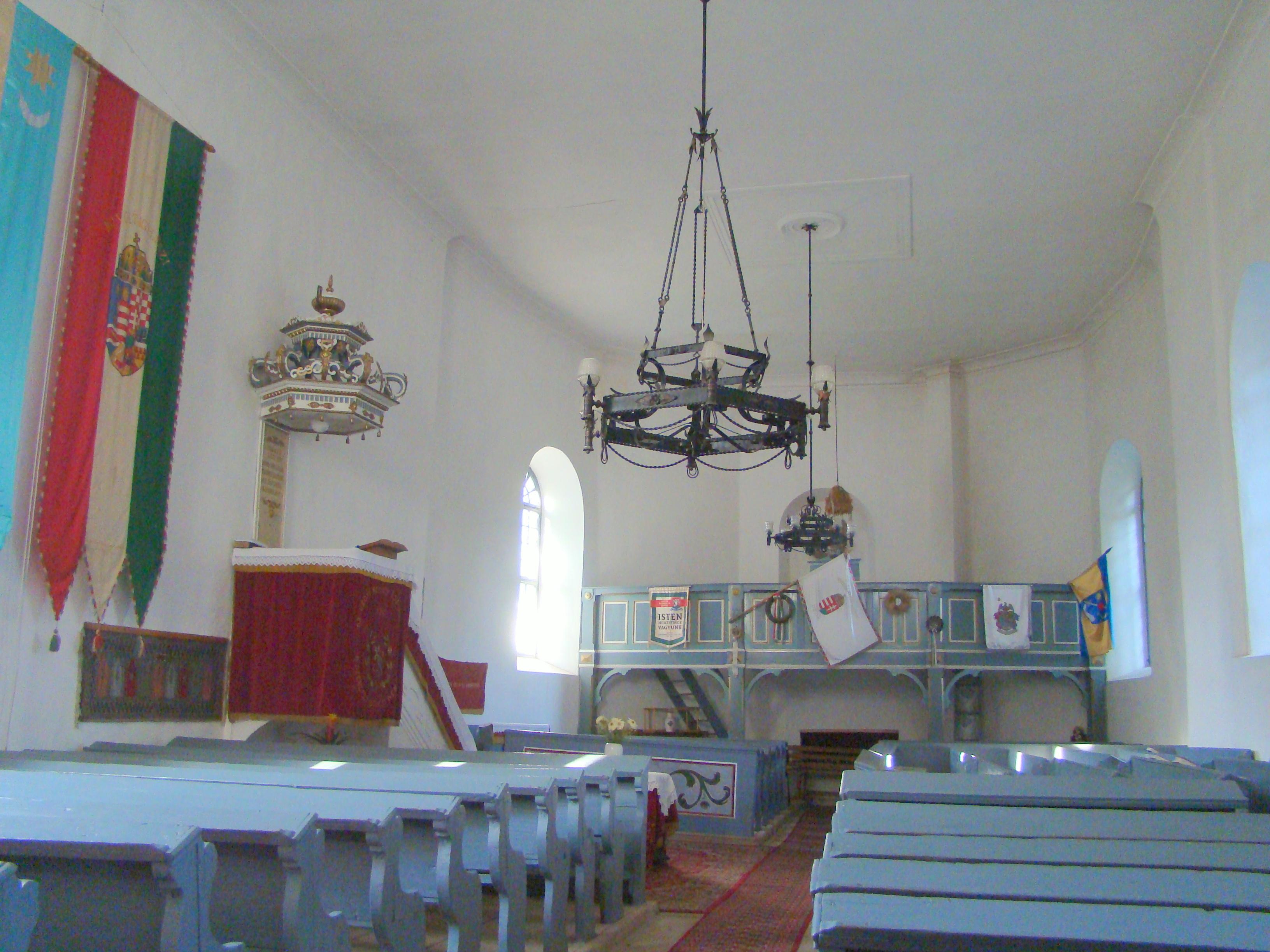 Reformed church in Ozun, Covasna County, Romania